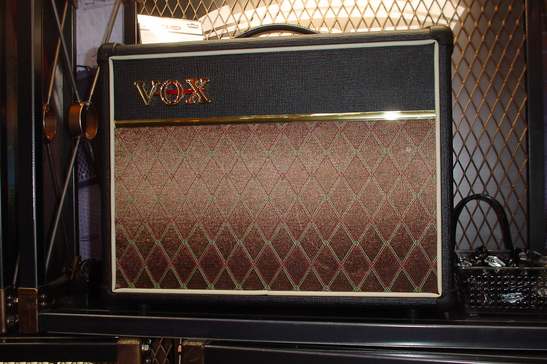 VOX DA20CL released in 2007. Note: "VOX AC30" model with "CL" suffix is not known, especially in 2007. [1] References ↑ VOX : ELECTRIC TUBE AMPLIFIERS: AC SERIES, Blue Book of Amplifier, Blue Book Publication